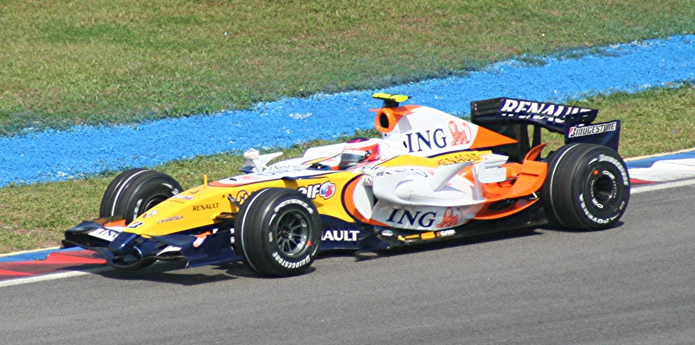 Heikki Kovalainen driving for Renault F1 at the 2007 Malaysian Grand Prix.